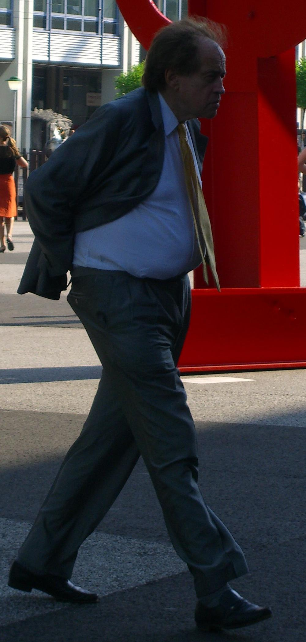 Film producer Arthur Cohn